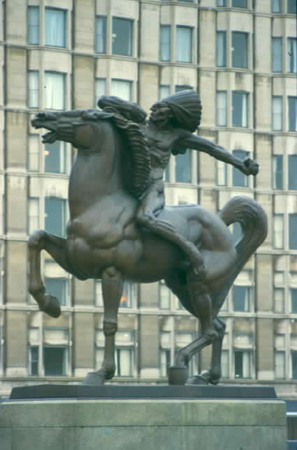 The Spearman of The Bowman and The Spearman